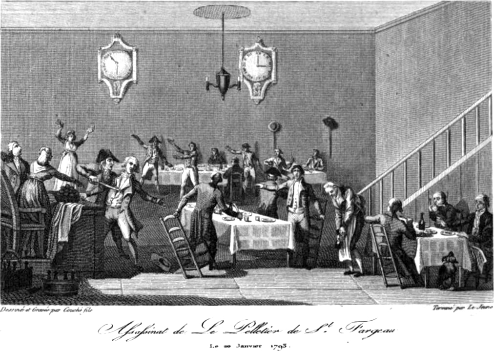 The Assassination of Le Peletier de Saint-Fargeau (January 20, 1793).